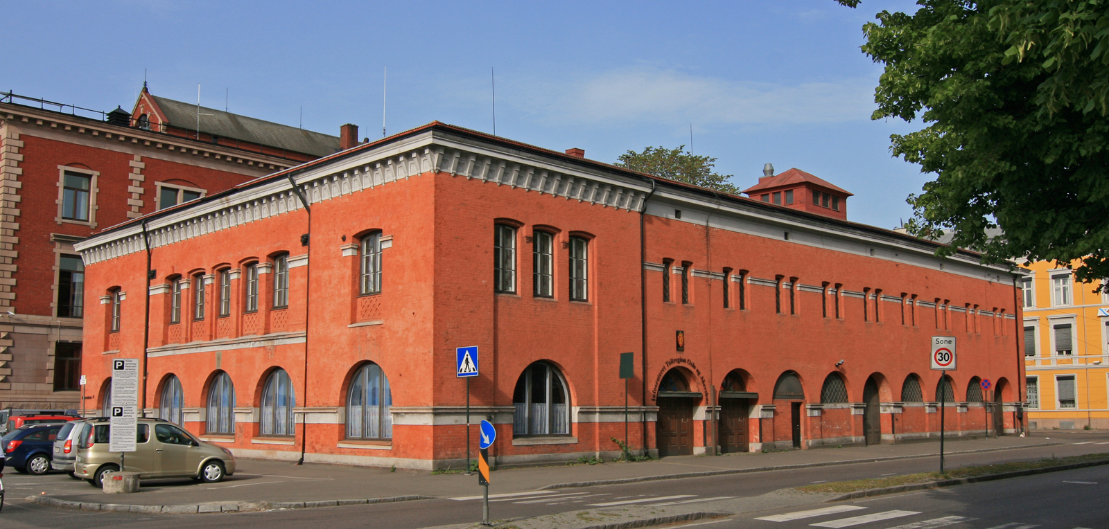 Tollpakkhuset (Customs warehouse), Tollbugata 1b, Oslo. Built 1850. Architect: Johan Nebelong. Today Norsk Tollmuseum (Norwegian Customs Museum).